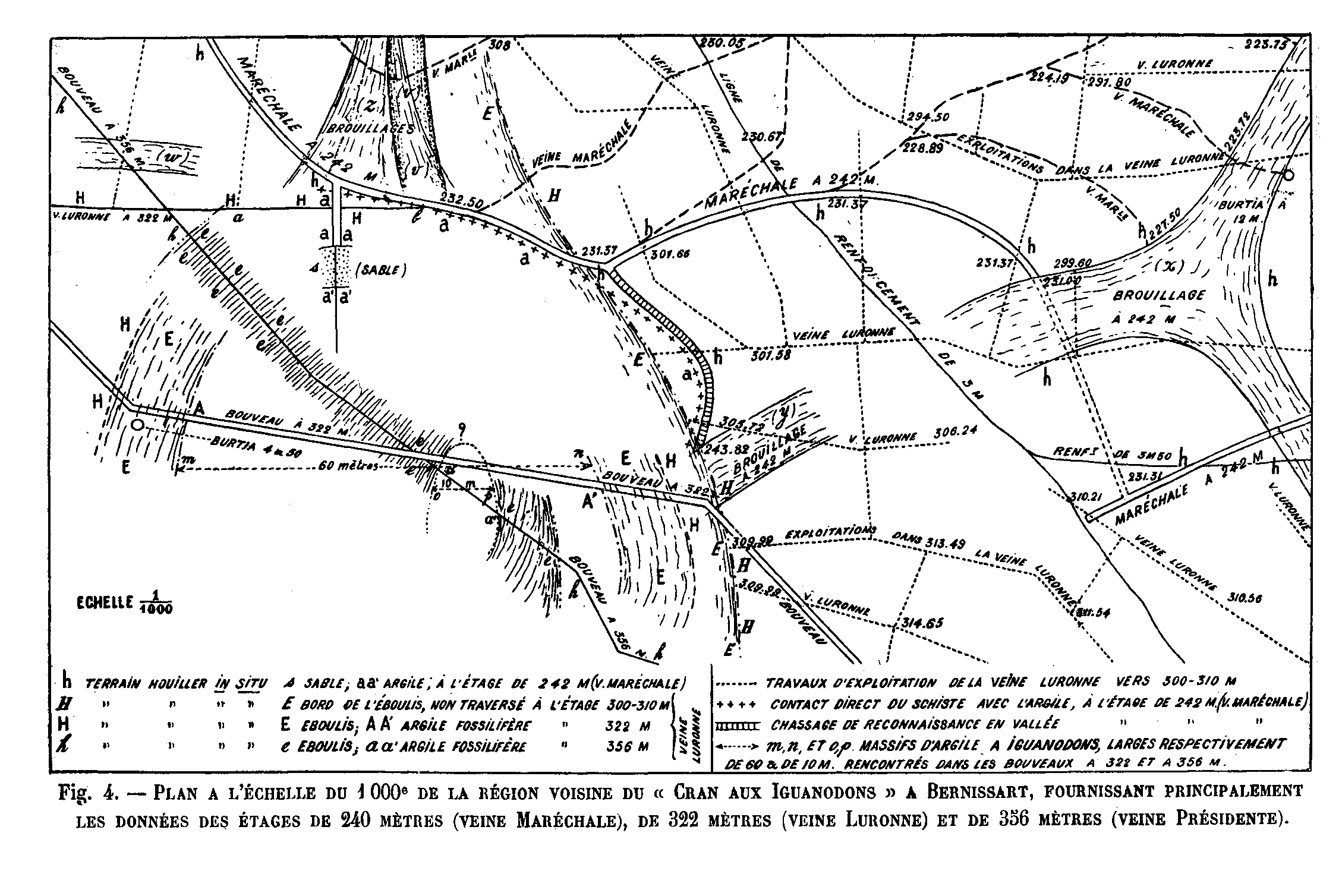 Detail map of the Iguanodon sink hole in Bernissart by Ernest van den Broeck (1898)